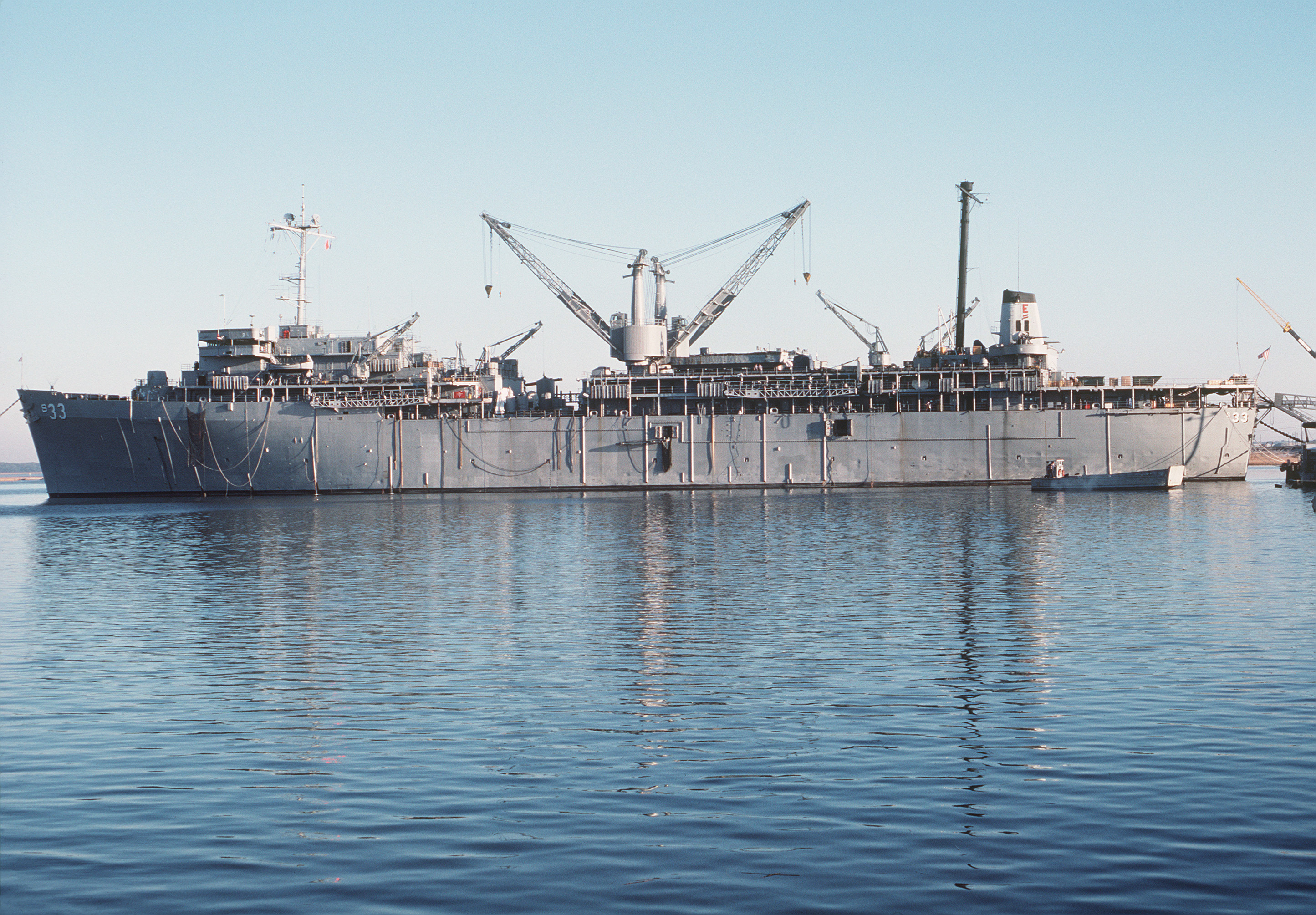 The U.S. Navy submarine tender USS Simon Lake (AS-33) docked at Kings Bay, Georgia (USA), on 1 December 1981. The Simon Lake provided refit, repair, and supply functions for the nuclear-powered fleet ballistic missile submarines of U.S. Navy Submarine Squadron 16.